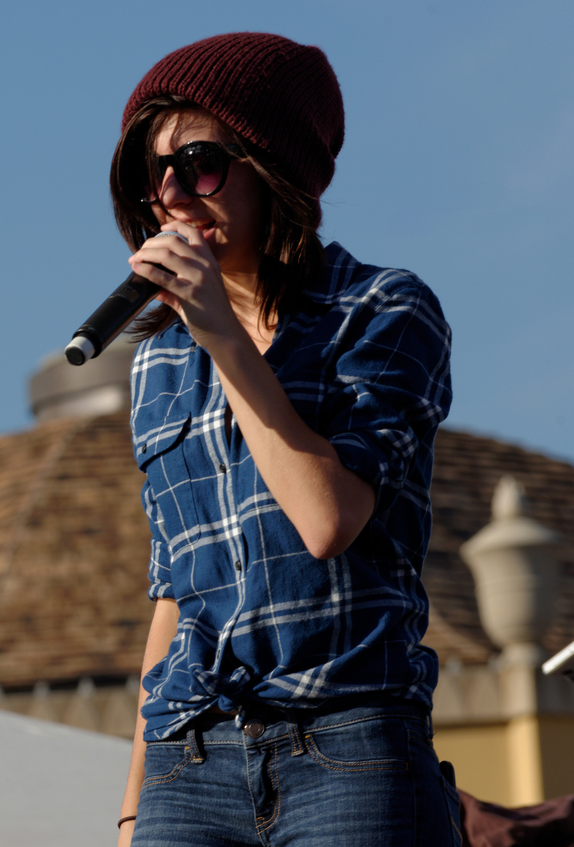 Christina Grimmie performing live at the Citadel Outlets 13th Annual Tree Lighting concert in Los Angeles California on Saturday November 8th, 2014. Presented by 97.1 FM AMP Radio and Fox 11.